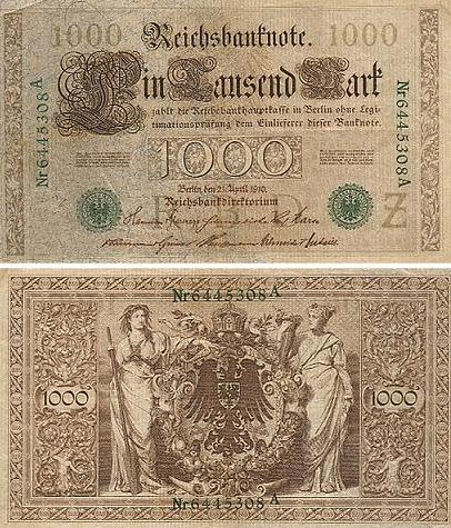 1000 Mark banknote, German Money, was printed in the Year 1910. green label